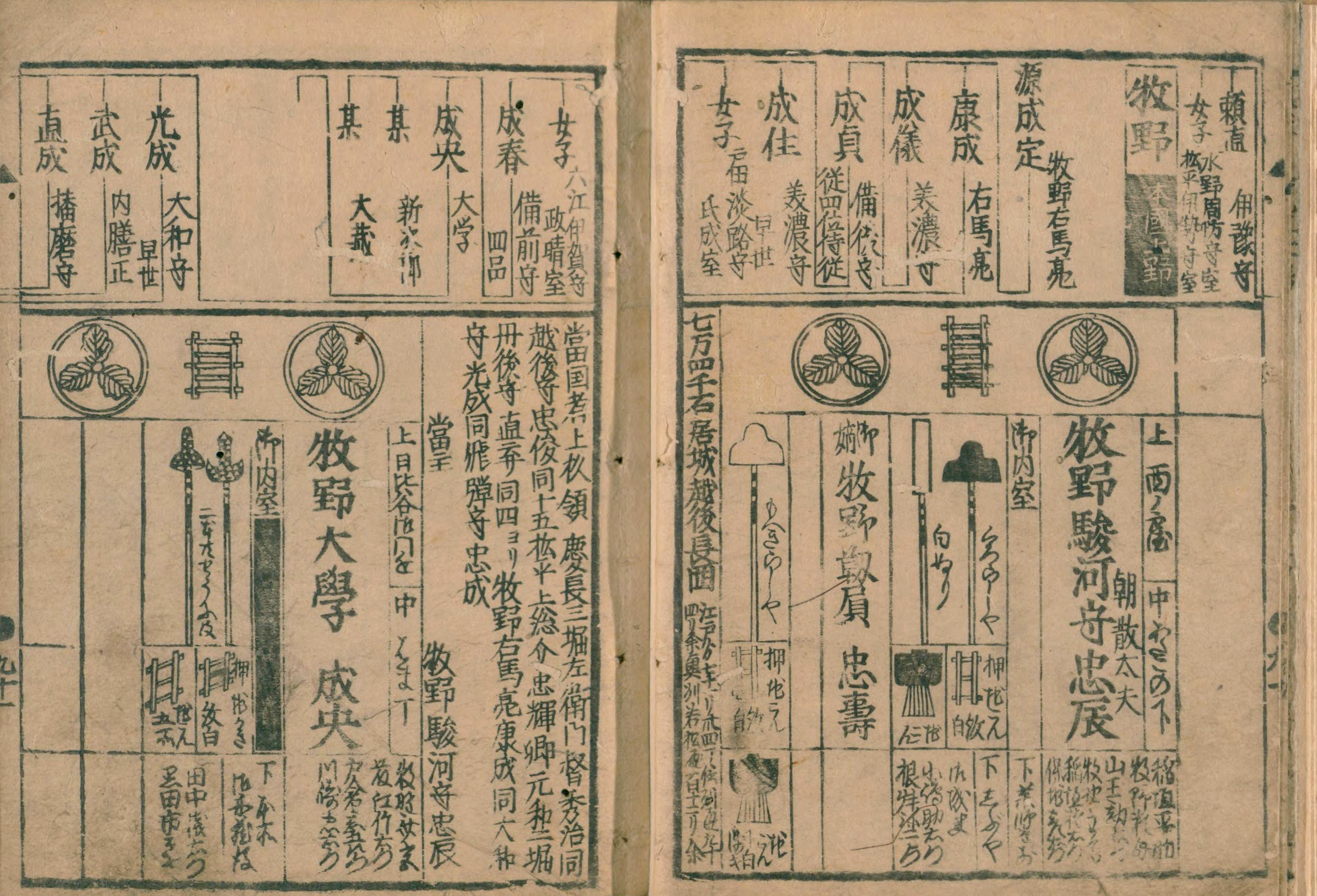 Part about Makino Tadatoki of Nagaoka Domain in "Hōei 7nen Daimyō Bukan"